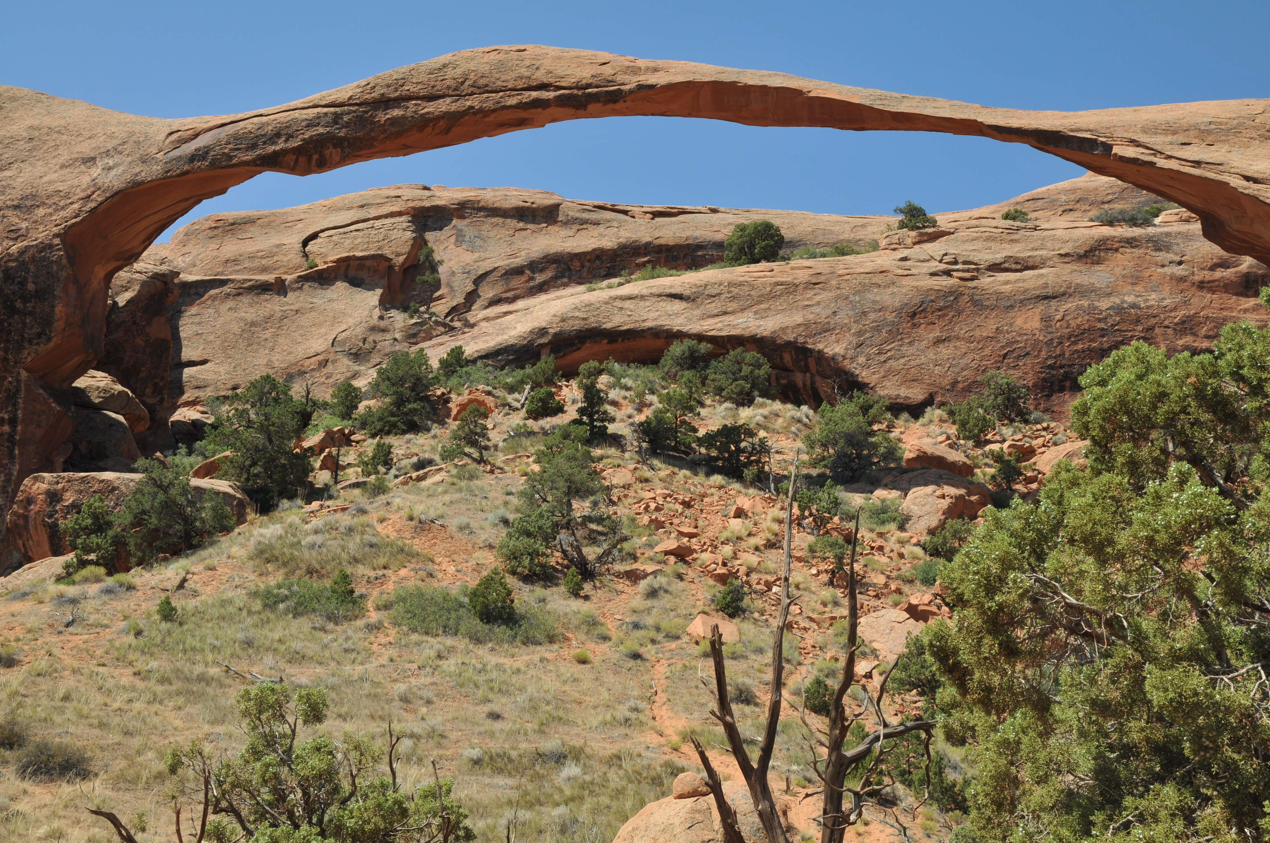 Landscape Arch, Arches National Park, Utah (USA)